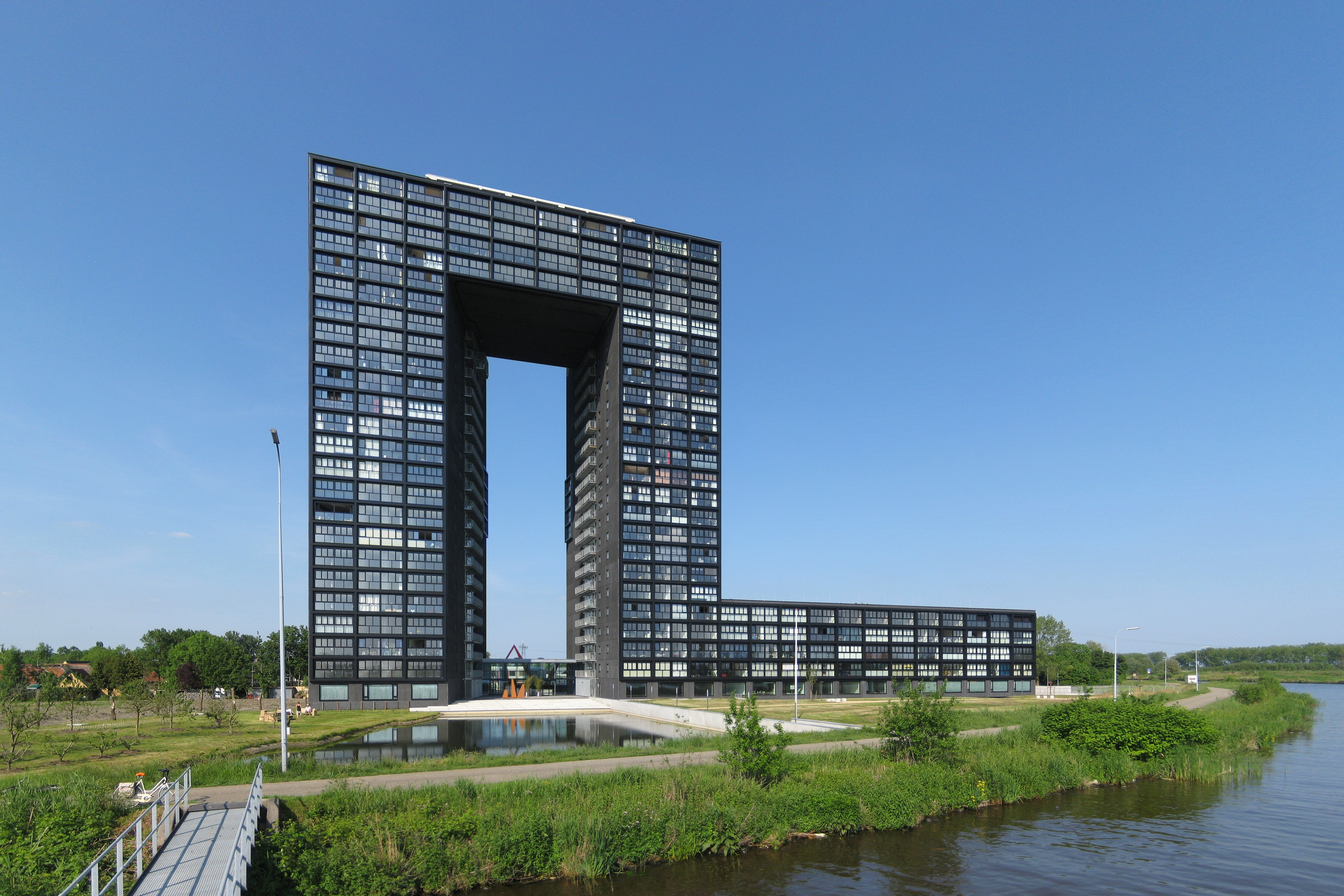 The Tasmantoren (2010), an apartment building in the Dutch city of Groningen.